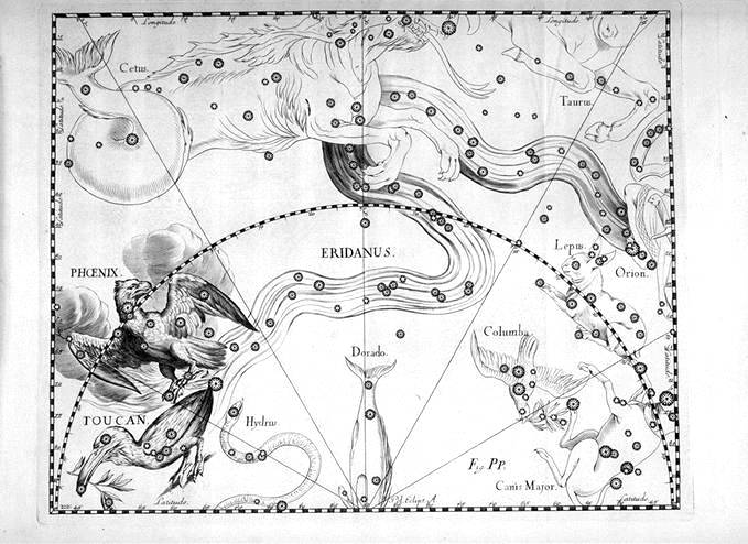 The Eridanus (constellation) constellation from Uranographia by Johannes Hevelius. The view is mirrored following the tradition of celestial globes, showing the celestial sphere in a view from "ouside"